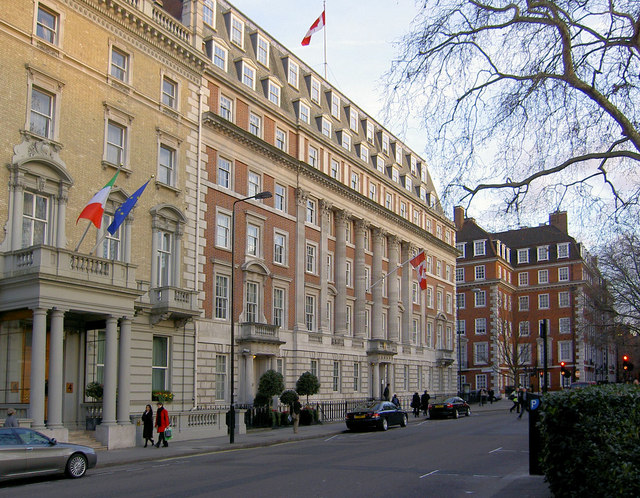 The border between Italy and Canada The embassies in Grosvenor Square.